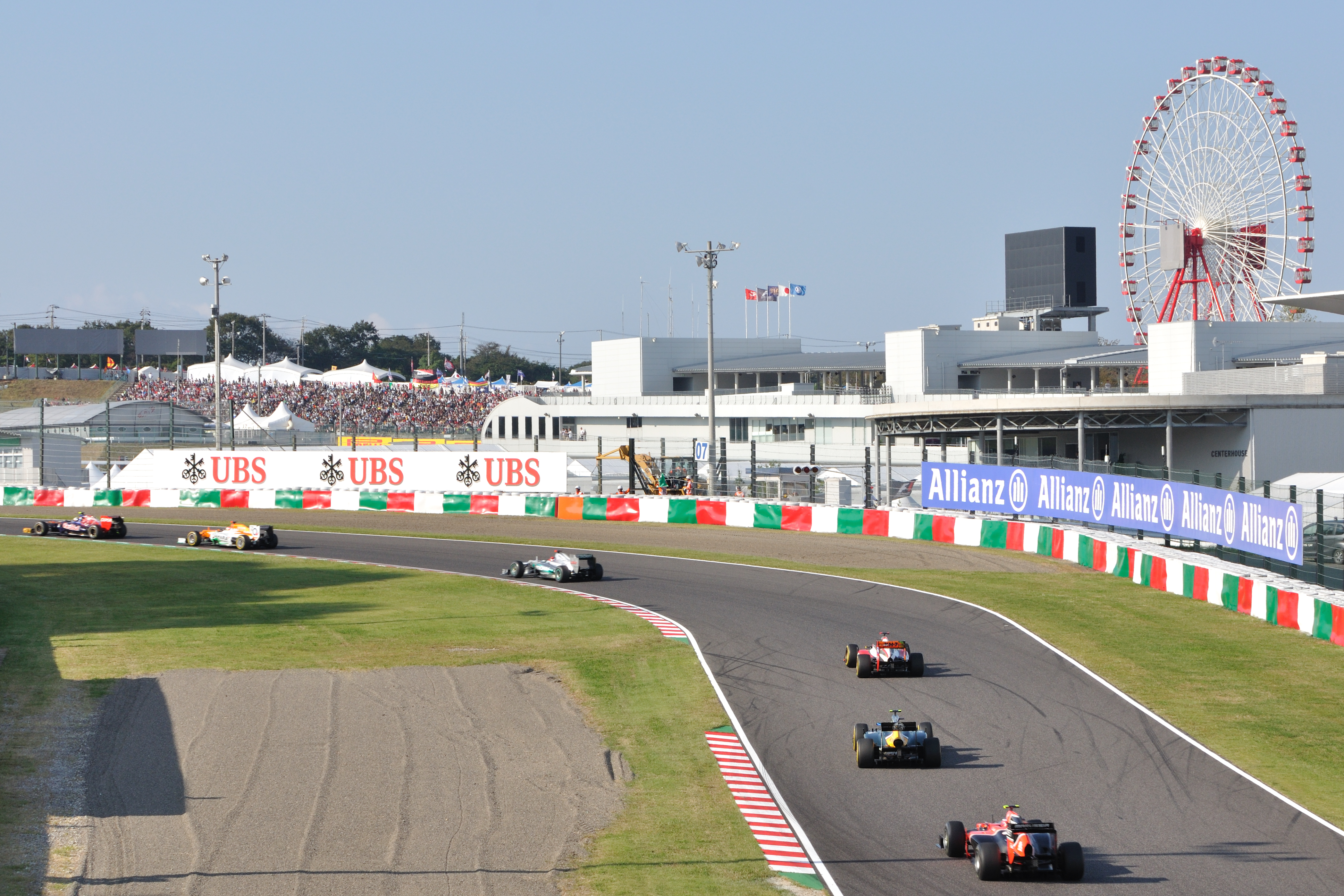 A close mid-field pack race through the high speed 'esses' of Suzuka Circuit during the 2012 Formula 1 Japanese Grand Prix. The race was won by Sebastian Vettel for Red Bull Racing.